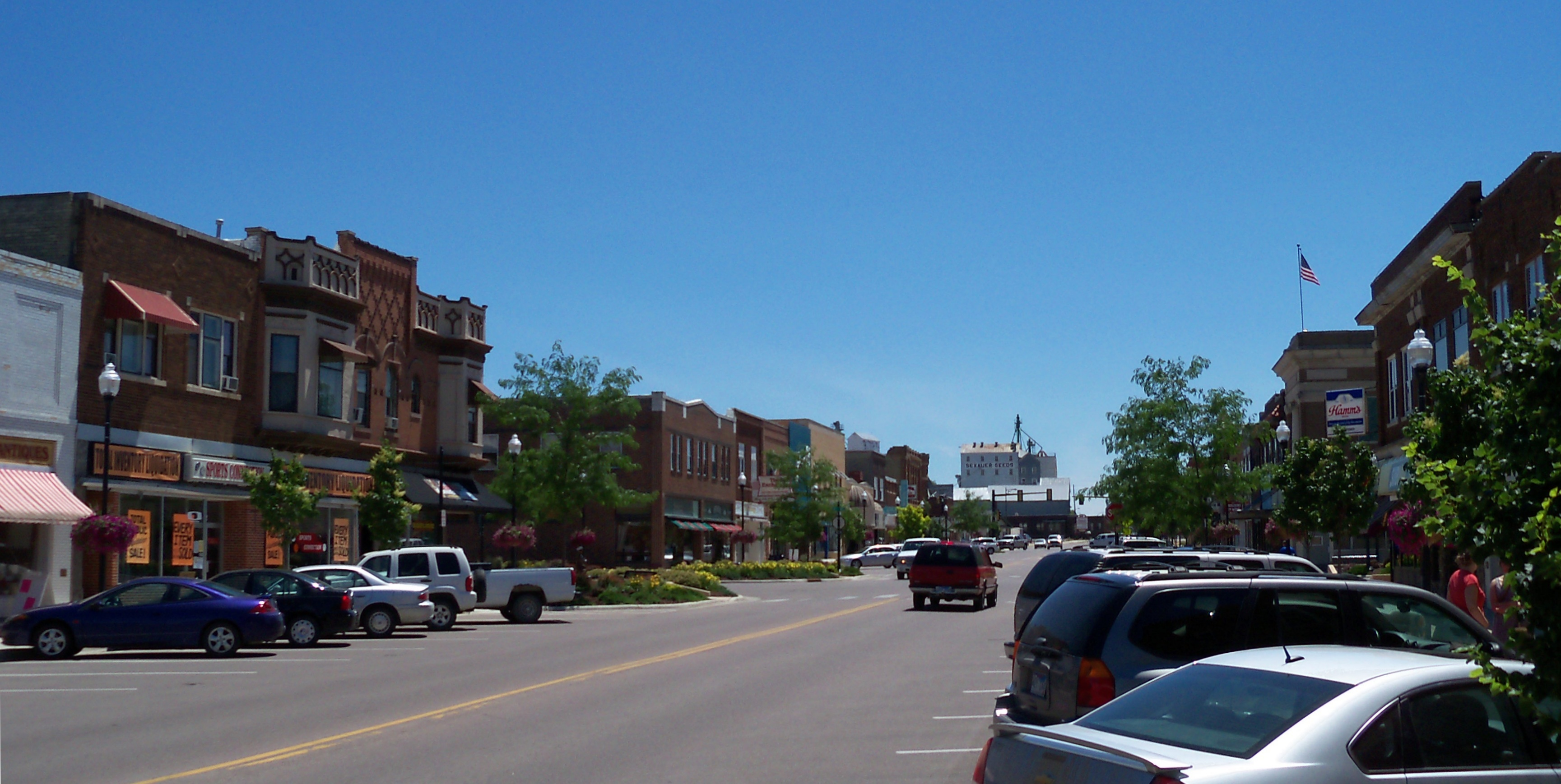 Main Street in Brookings, South Dakota, USA.